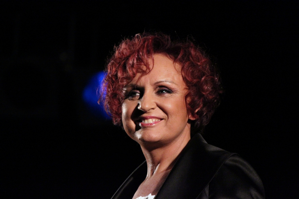 Petra Janů, tour 2010